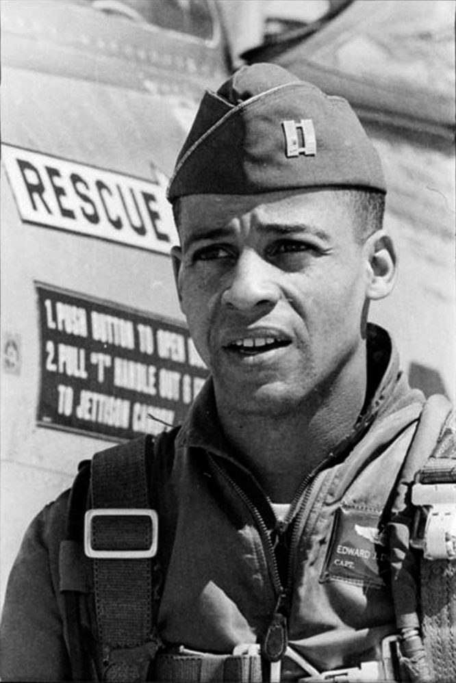 American black sculptor and former test pilot Edward Joseph Dwight, Jr., who was the first African American to be trained as an astronaut.